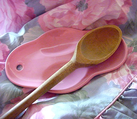 PINK spoon rest - JAPAN - Places for 3 spoons